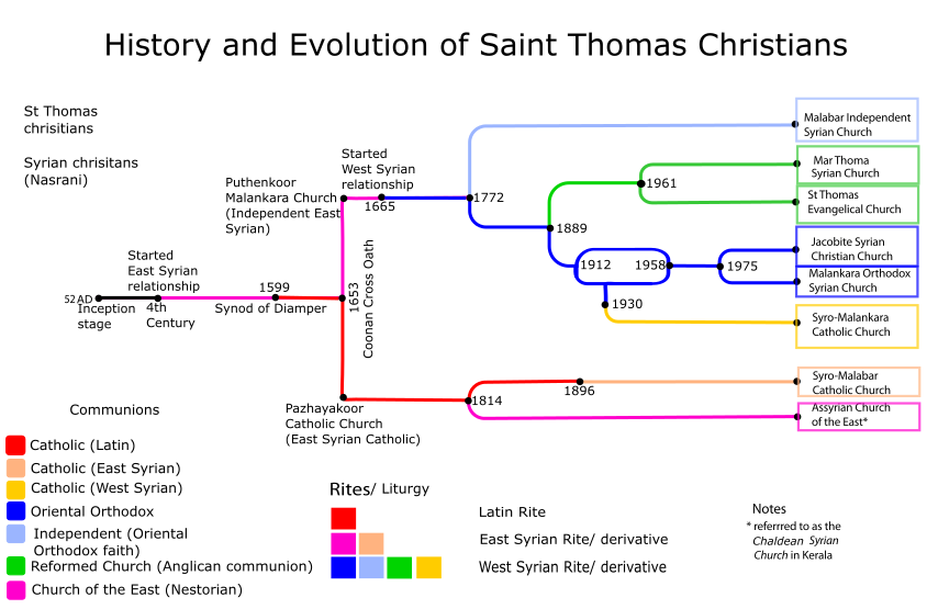 A chart depicting the chronology of events that occurred to the St. Thomas Christians community in India and how they were divided into its present constituents.